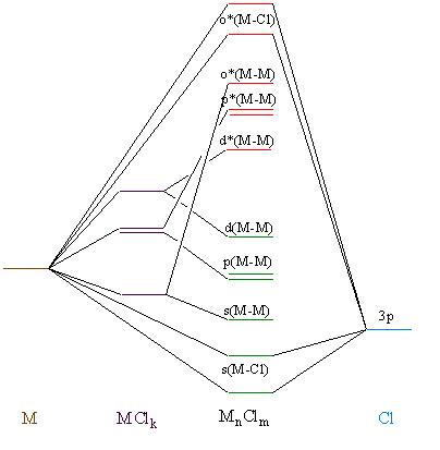 Mo diagram of metal chloride clusters created in Chem draw std. Copied from Russian Chemical Reviews, 54 (4), 1985.